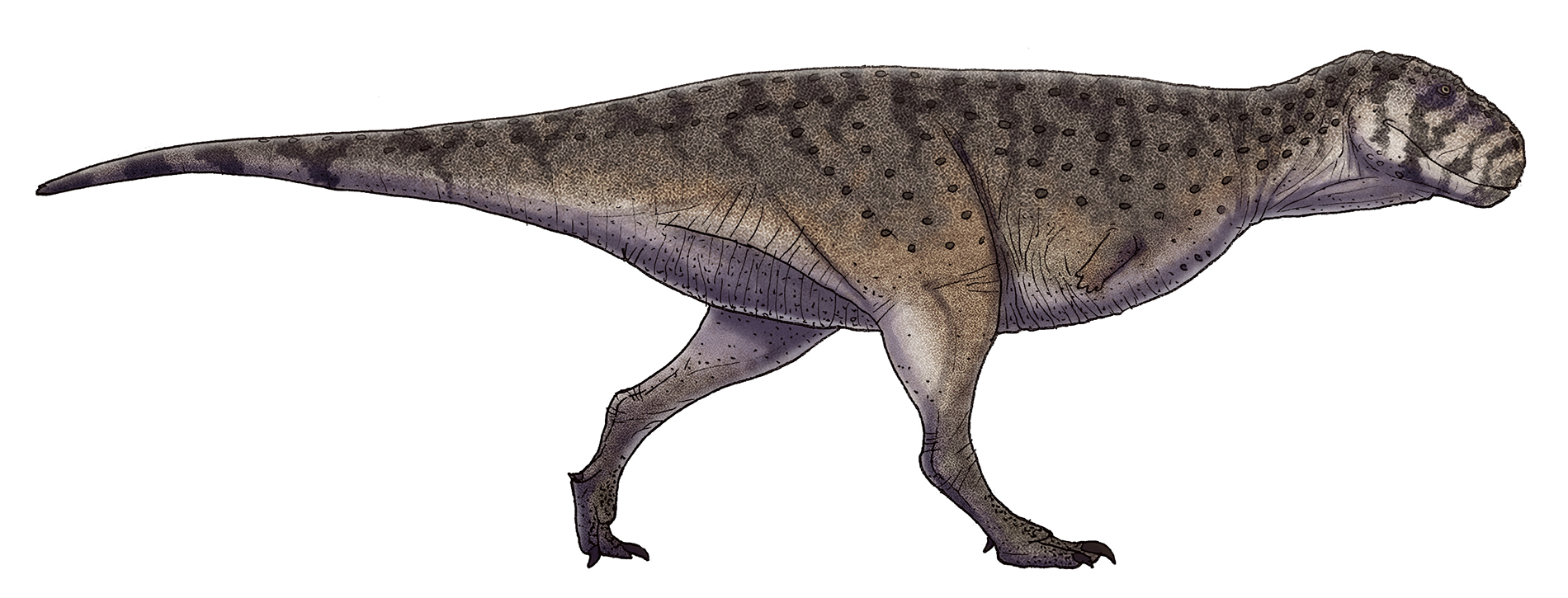 Full body reconstruction of Skorpiovenator bustingorryi.